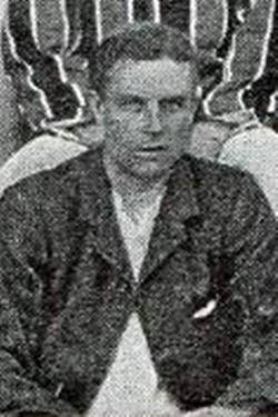 Picture cropped from Surrey CC postcard from 1905. From own collection.